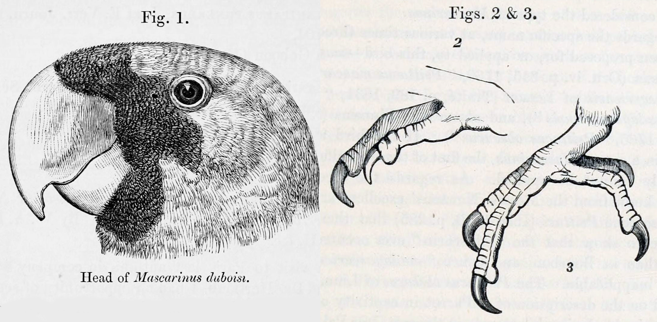 « Mascarinus duboisi » = Mascarinus mascarin (Mascarene Parrot) - head and foot